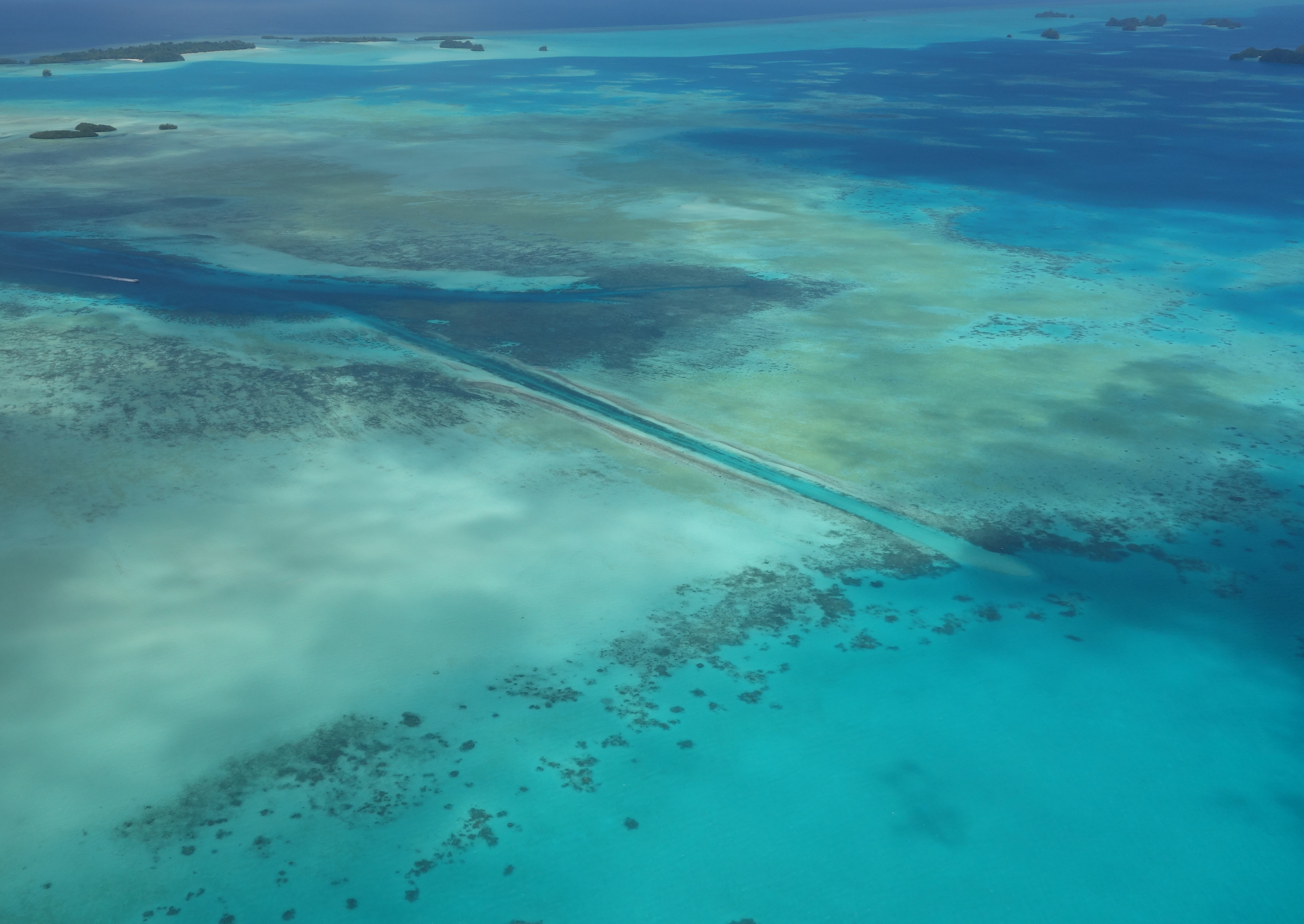 Aerial view of German Channel, which is an artificial channel dug into the Palau's barrier reef in the south-west that connects the lagoon to the Pacific Ocean. The view is facing west and the boat is entering the channel from the Pacific Ocean side.